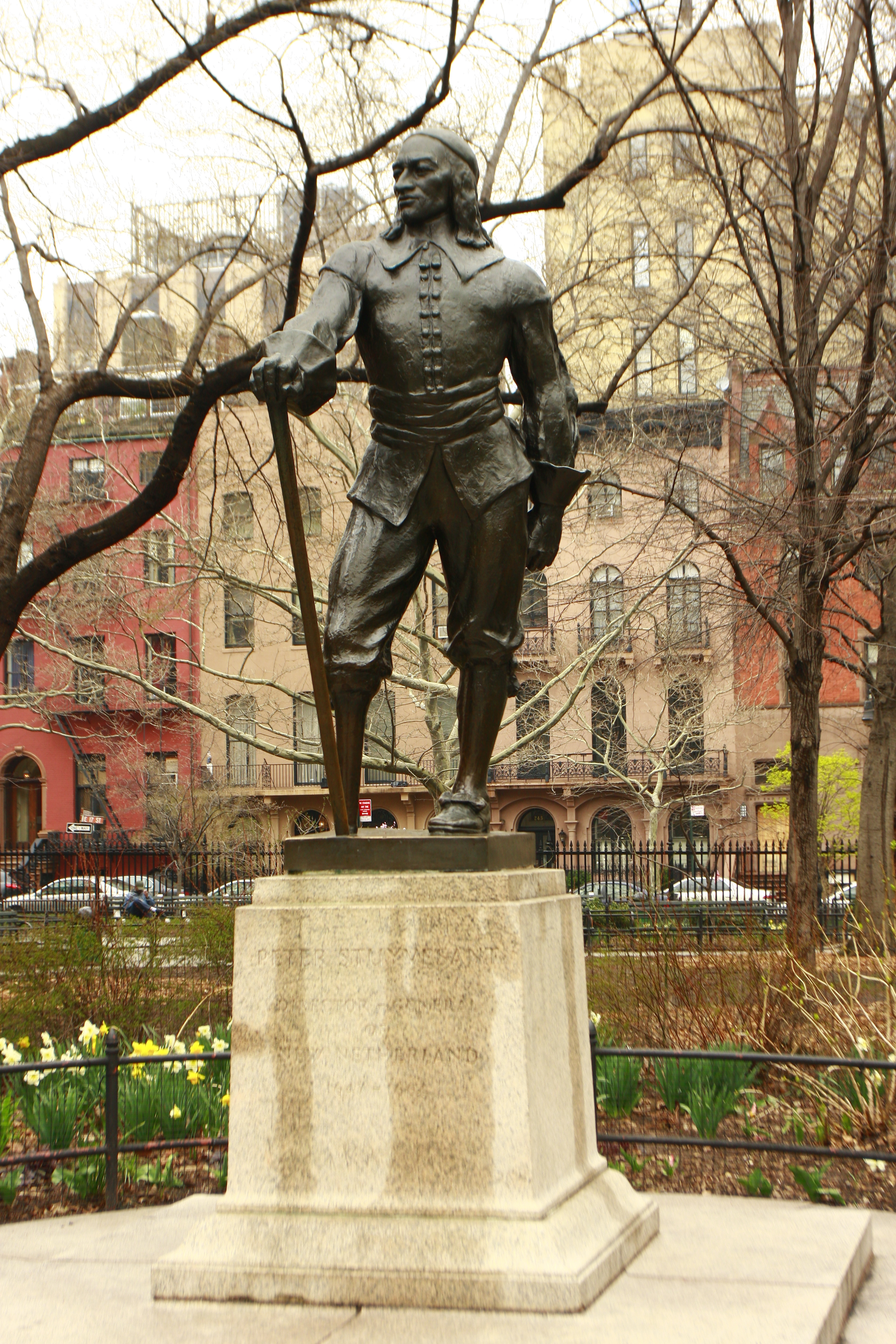 This photo is of Wikipedia Takes Manhattan location code 126, Stuyvesant Square.